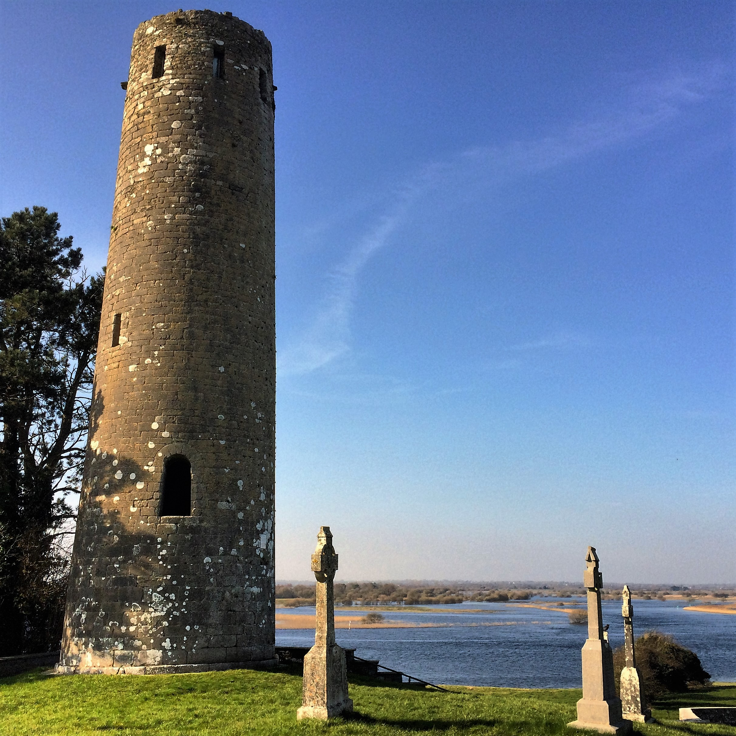 Clonmacnoise Early Medieval Ecclesiastical Site